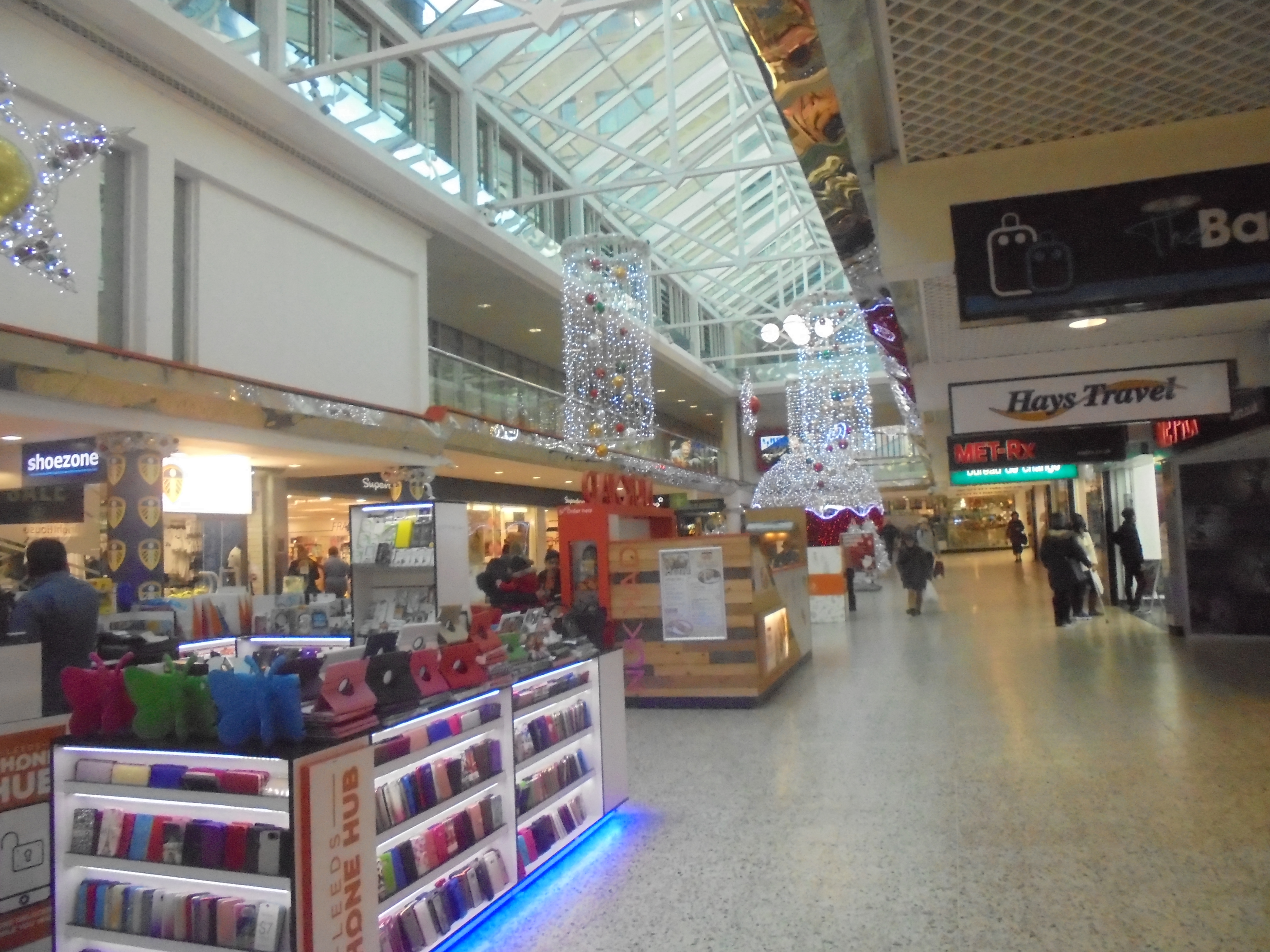 Interior of the Merrion Centre, Leeds, West Yorkshire. Taken on the afternoon of Wednesday the 14th of November 2018.